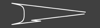 Modified from the original sourced from the official Vekoma website to add a background colour.